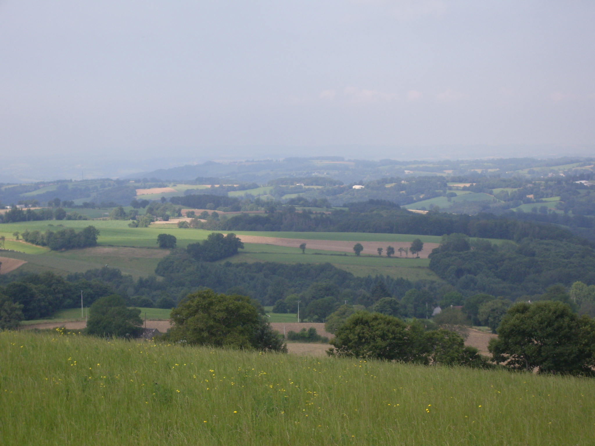 Landscape observed in the Ségala region